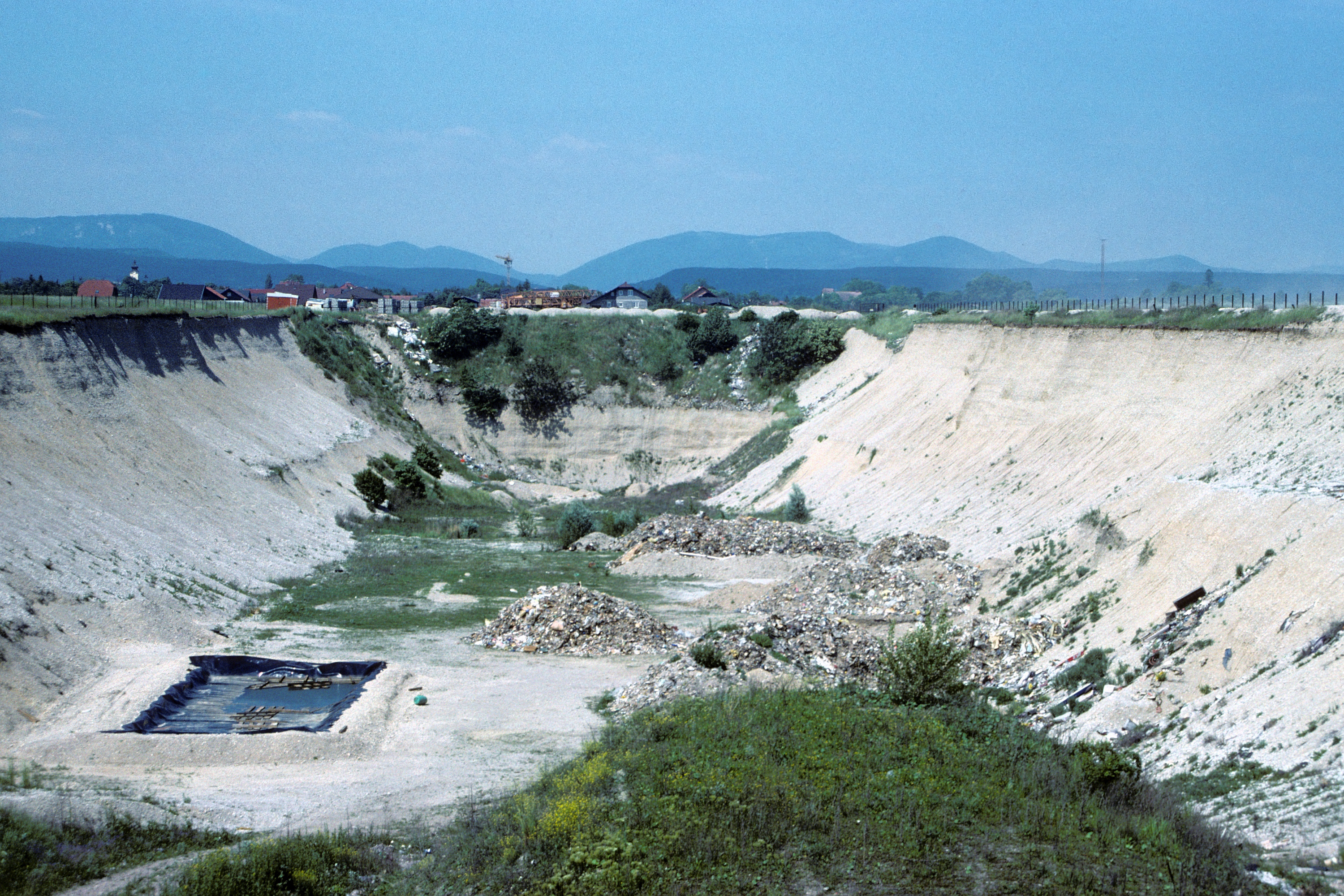 Landfill Fischer-Deponie, Lower Austria